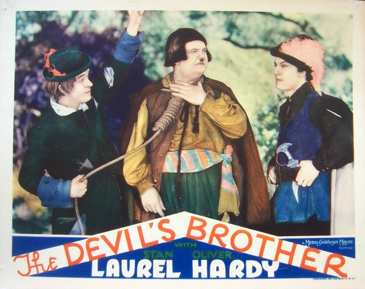 Lobby card for the 1933 film The Devil's Brother.